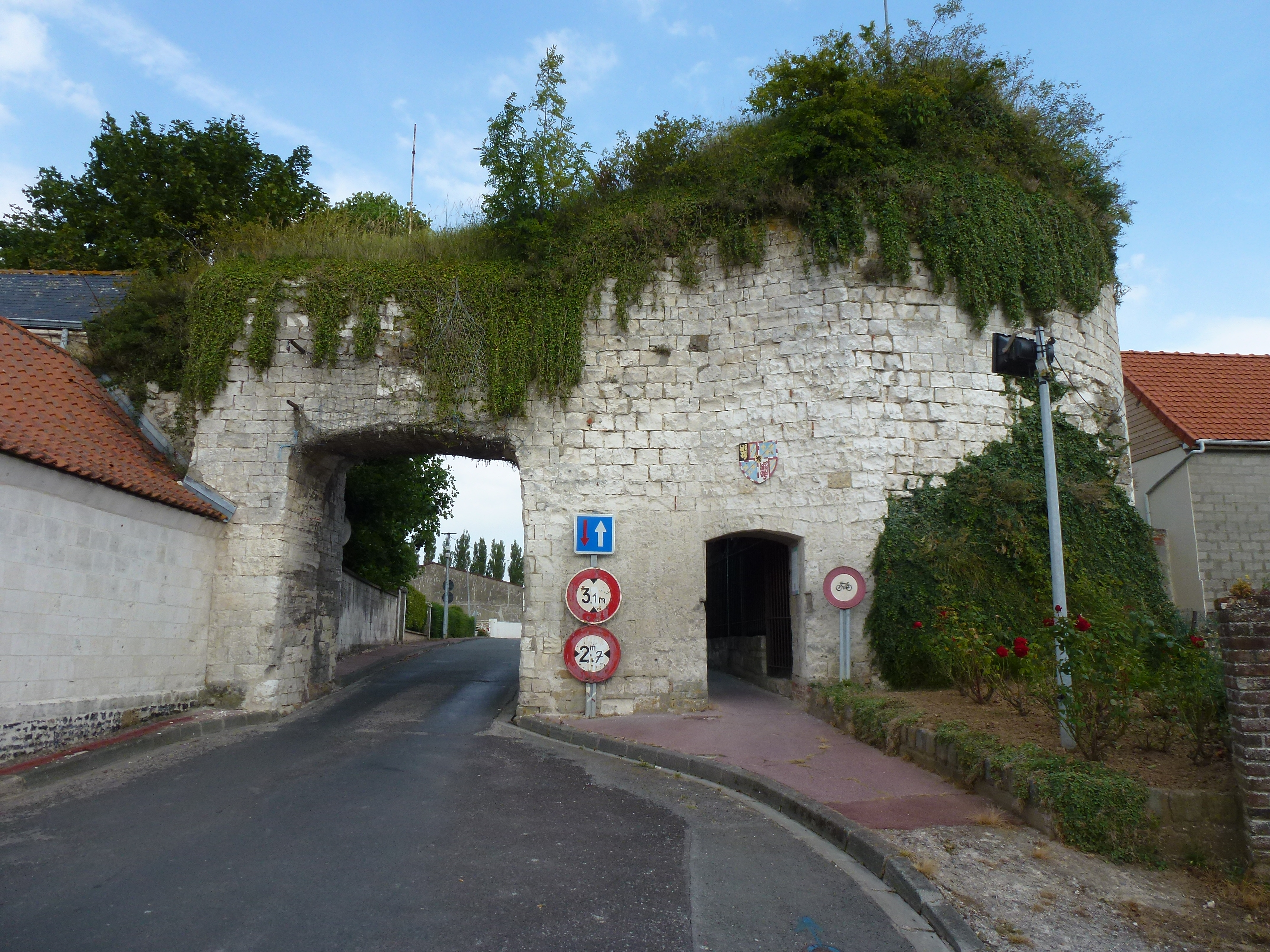 Tournehem-sur-la-Hem (Pas-de-Calais, Fr) reste des fortifications